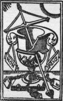 Image used in several books published by À l'enseigne du pot cassé : Image:Voltaire Dialogues philosophiques.djvu or Image:Anonyme - Les Aventures de Til Ulespiegle.djvu or Image:Swift - Instructions aux domestiques.djvu